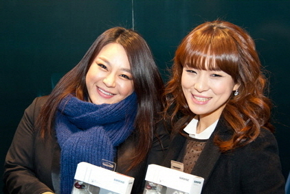 Big Mama (South Korean female band) on December 15, 2011